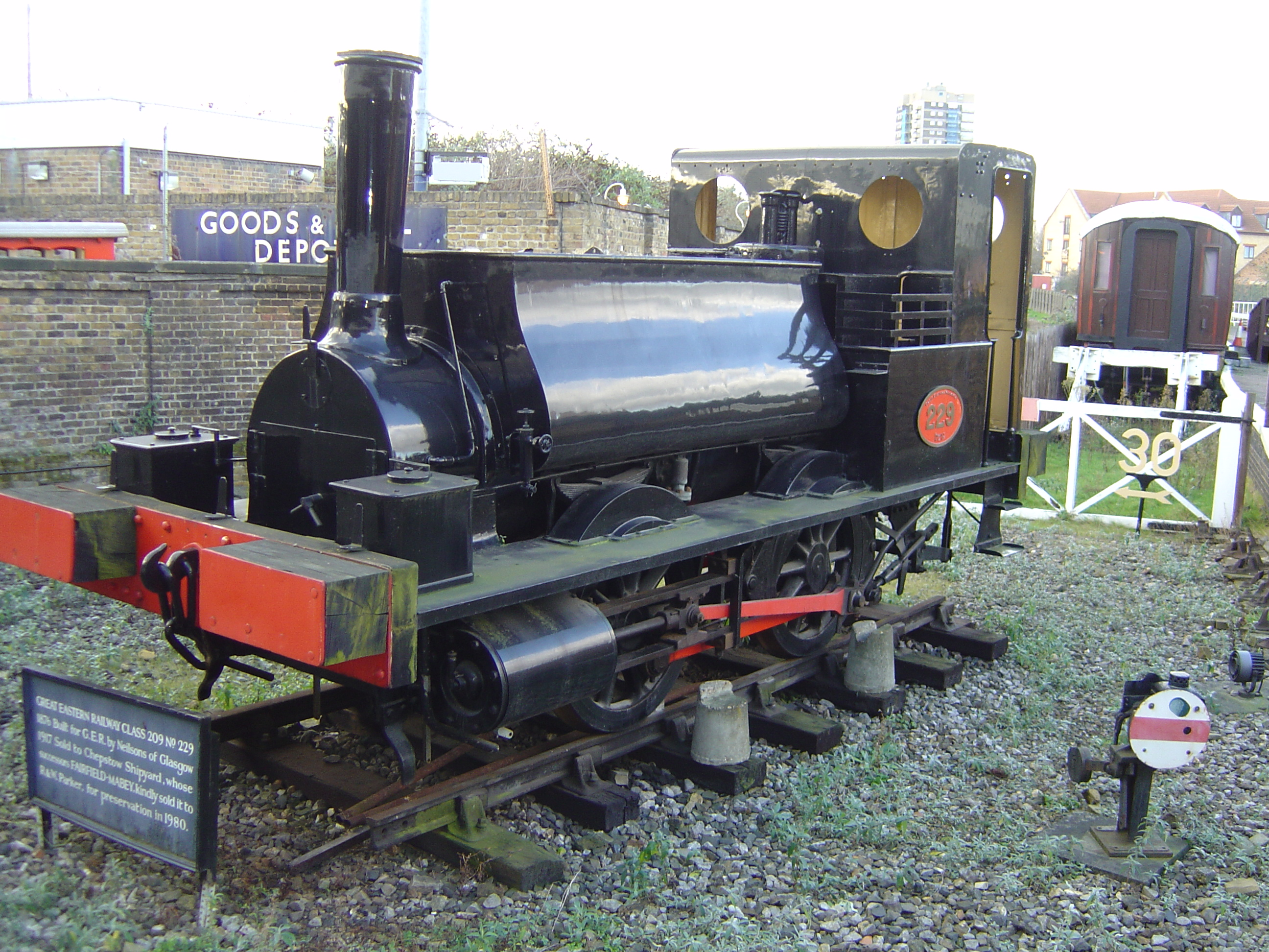 Preserved GER Class 209 number 229, at North Woolwich Old Station Museum in East London, prior to closure.